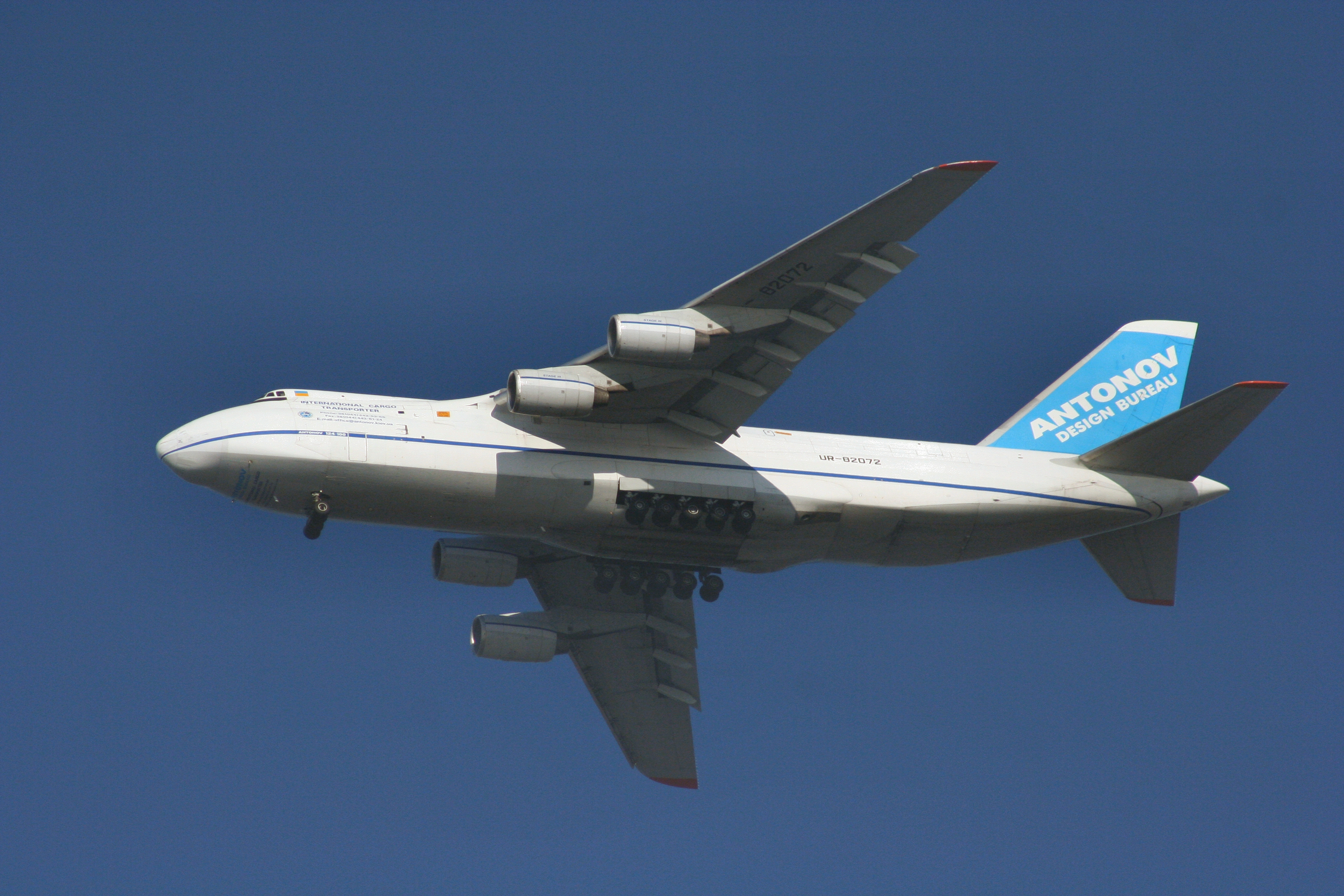 Antonov An-124 Rusłan preparing to land at Wroclaw-Strachowice airport.